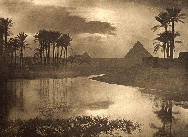 Evening near te Pyramids